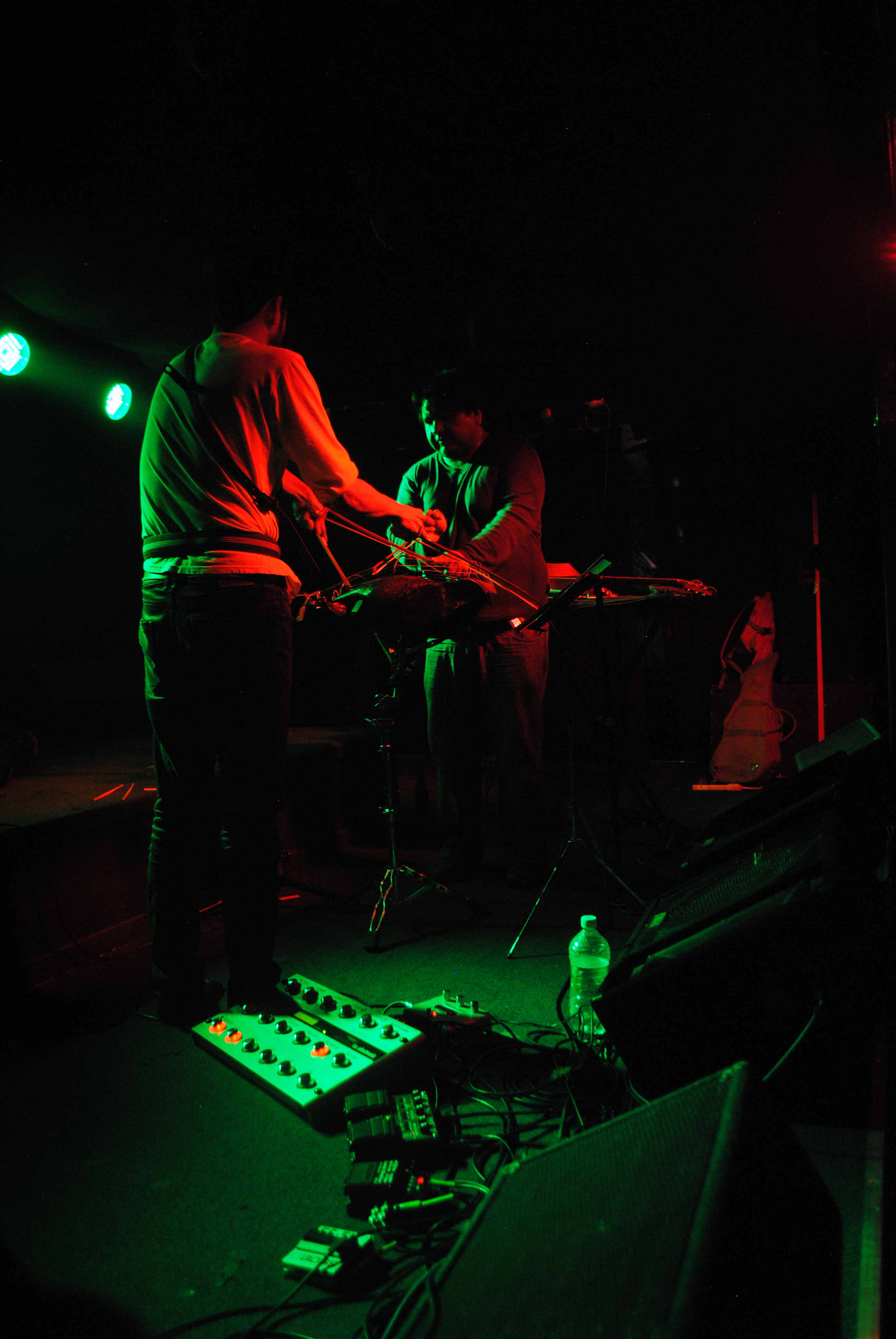 Multiforo Cultural Alicia, Mexico City